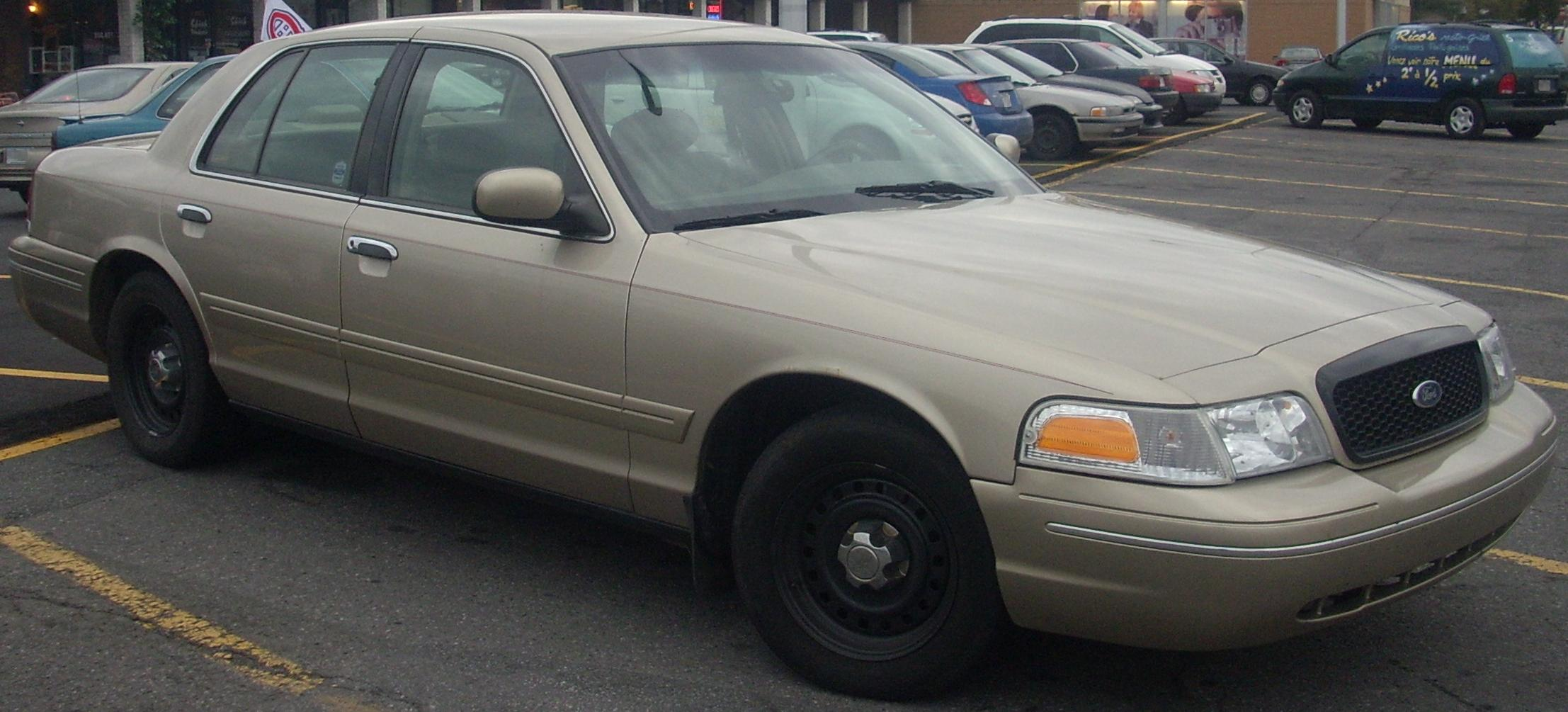 1998-2002 Ford Crown Victoria photographed in Montreal, Quebec, Canada.